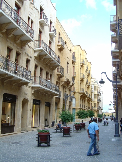 Beirut - Central Shopping District.